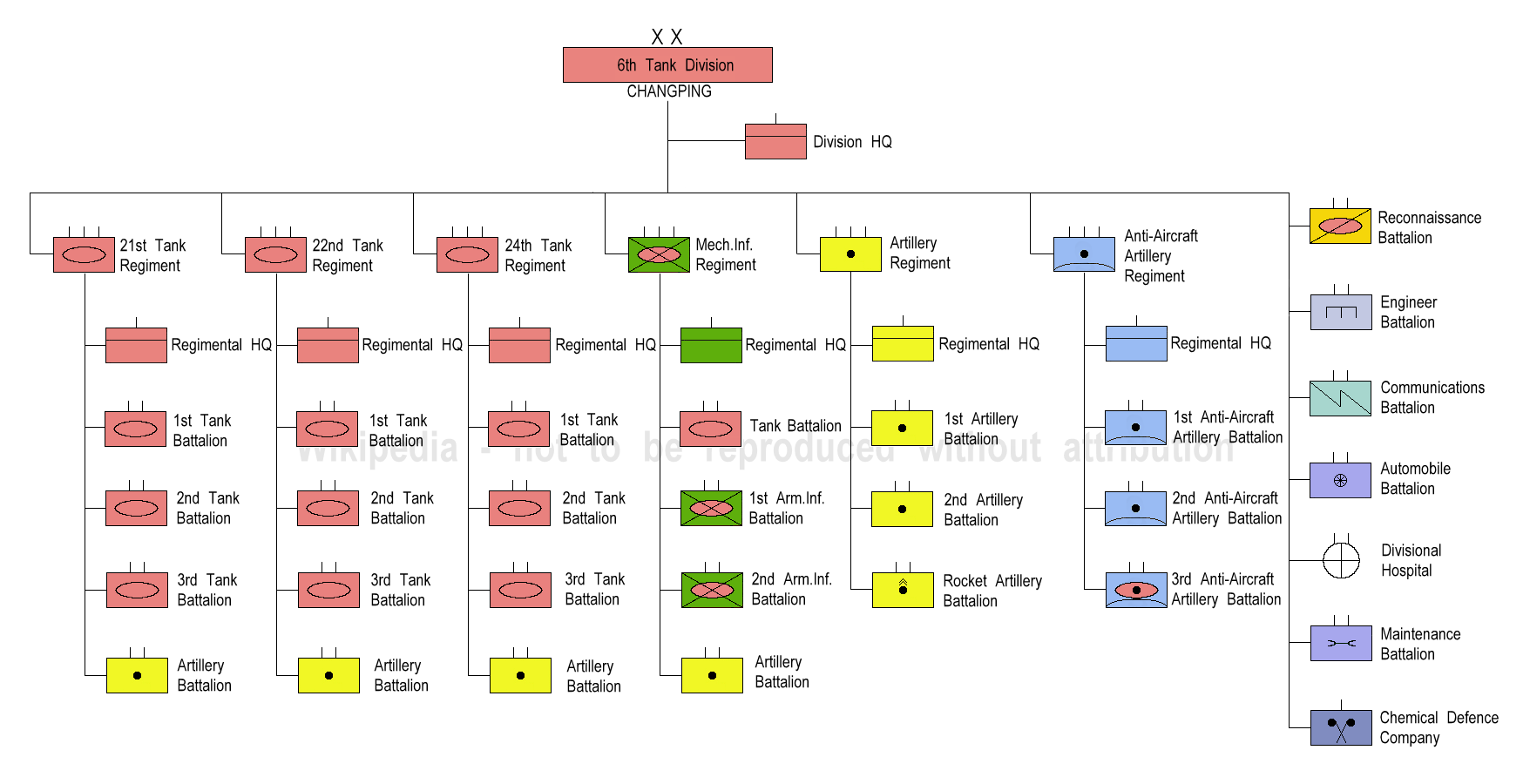 6th Tank Division of 38th Army, People's Liberation Army, Organization 1985-98, as a Combined Arms Army Tank Division.